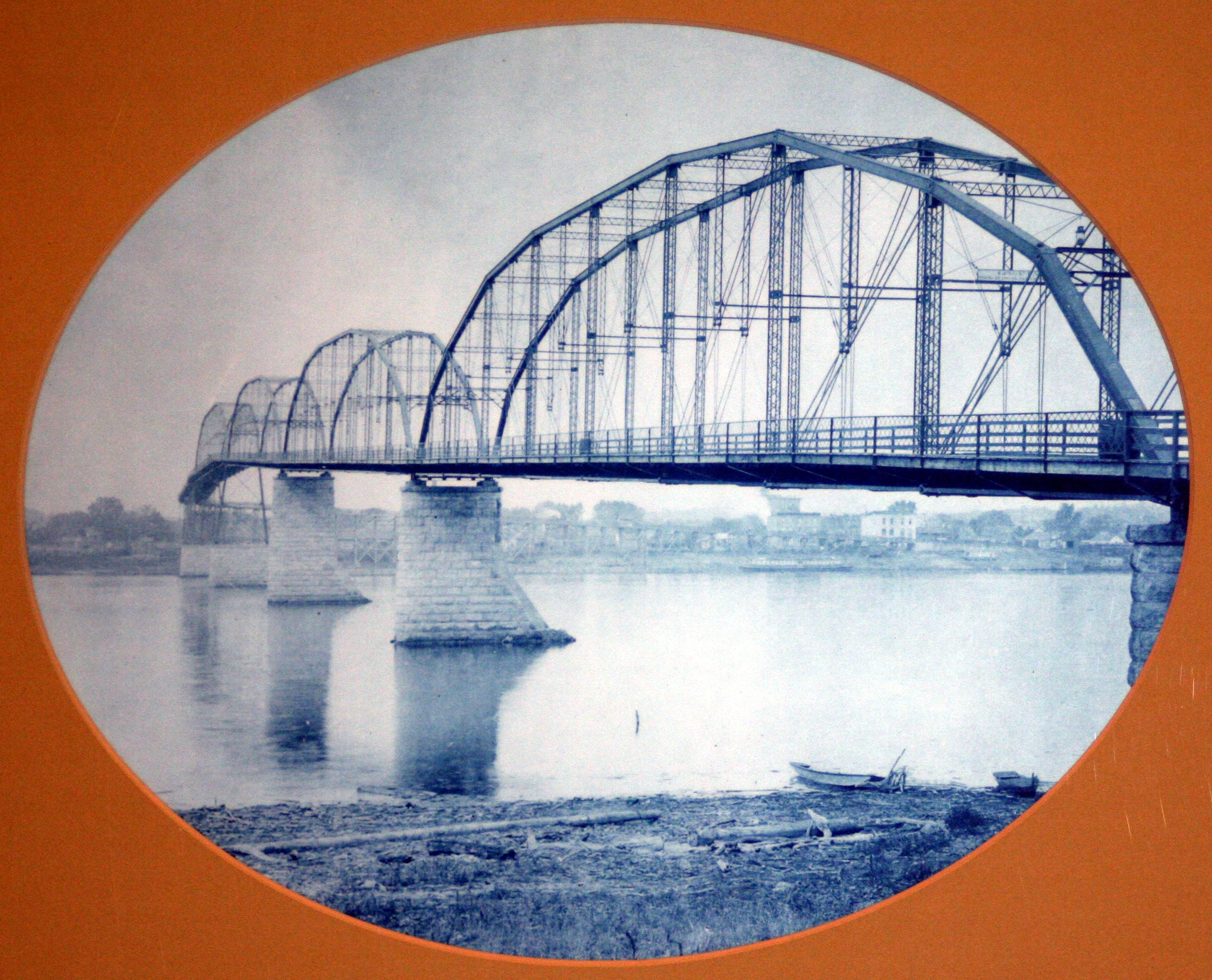 "Wagon Bridge, Fulton, Illinois 1891" at Henry Peter Bosse "Views on the Mississippi" exhibition, Ramsey County Historical Society, Landmark Center, Saint Paul, Minnesota. Photo of a modern reproduction of a Bosse photo from a volume found by the U.S. Corps of Engineers aboard the Dredge William A. Thompson.